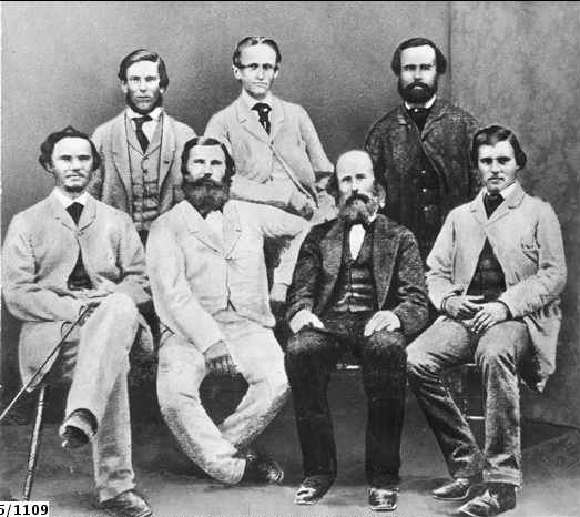 Members of John McDouall Stuart's 1861-1862 Expedition Party. Back Row: W.P. Auld, J.W. Billiatt and F.W. Thring Front Row: J. Frew, W.D. Kekwick, F.G. Waterhouse and S. King. Absent: J.McD. Stuart, H. Nash, J. McGorrery John McDouall Stuart Society website